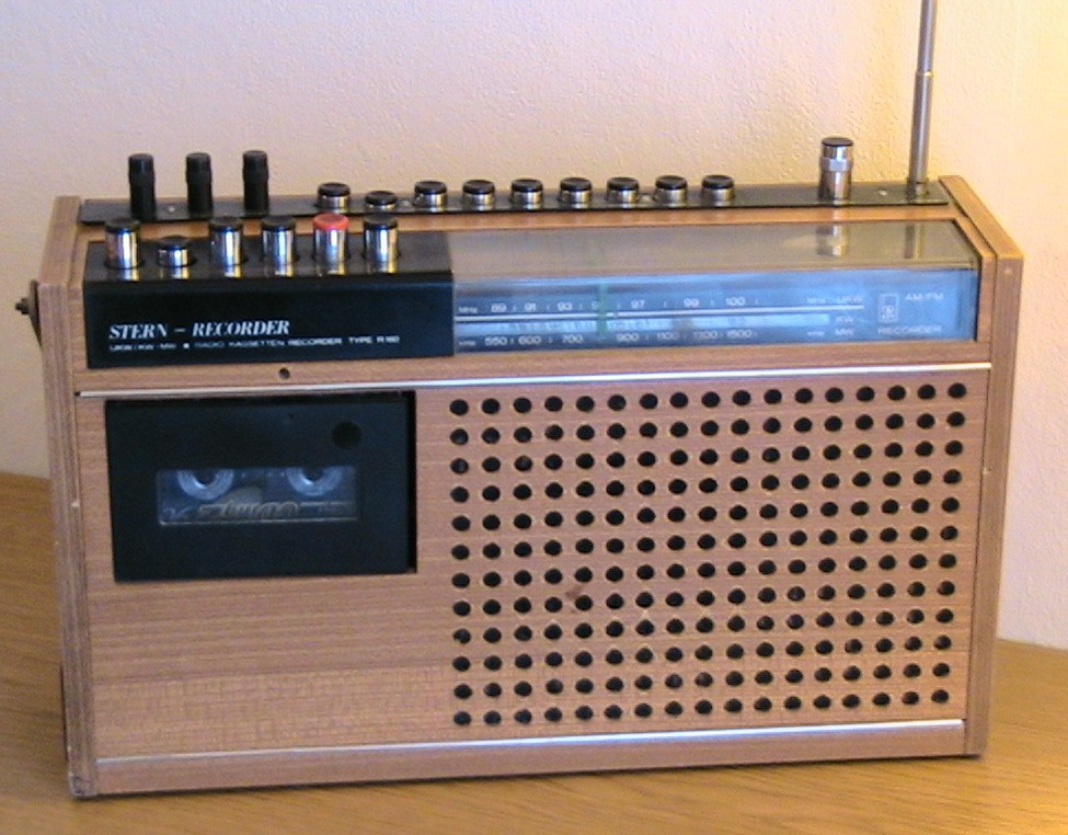 The Stern-Recoder R160 from VEB RFT Sternradio Berlin